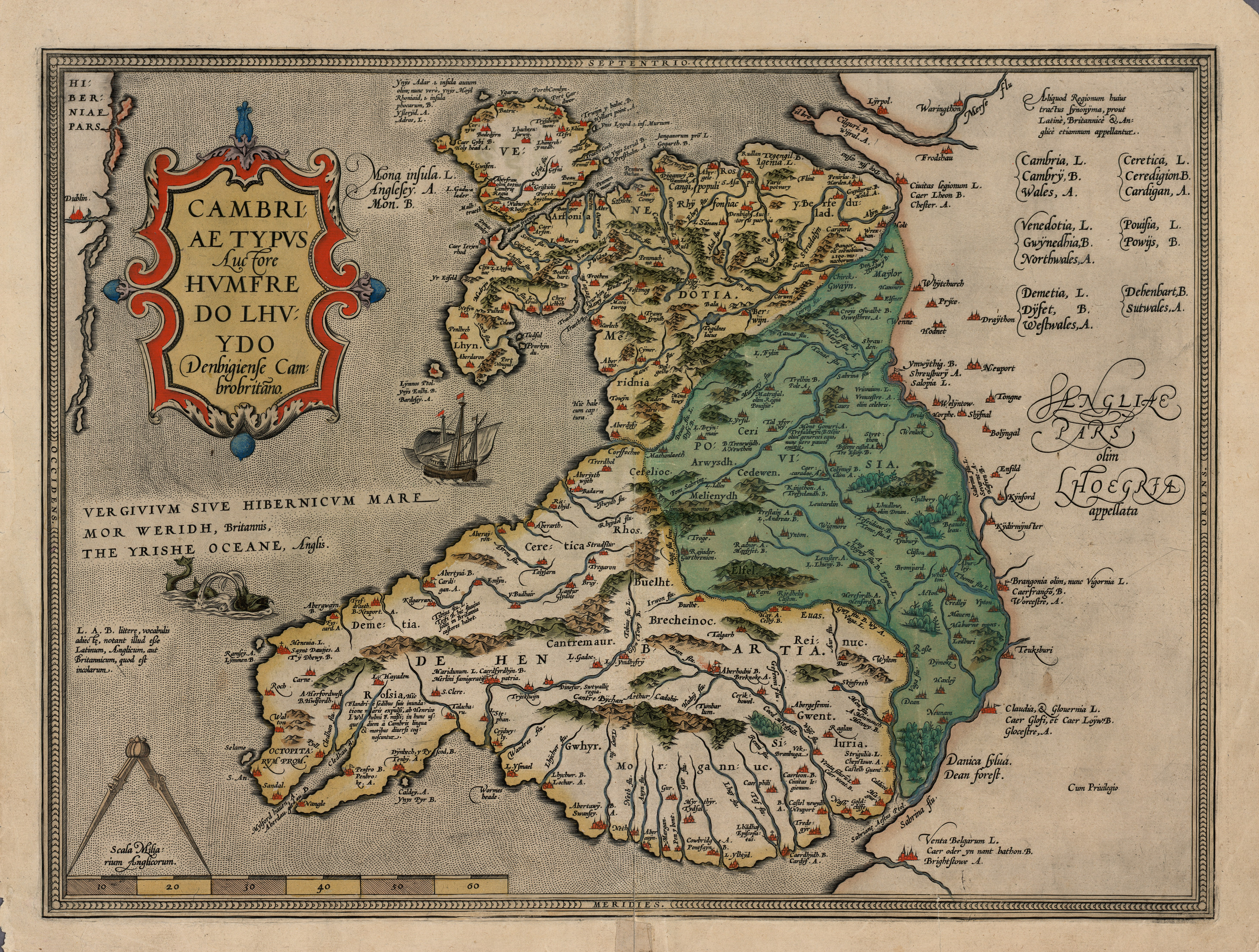 Map of Wales. From Ortelius: Theatrum Orbis Terrarum[1574?]. 55 lines Latin text. Verso p. 9, 1 leaf blank. Crack in margin. Ortelius Type A1.